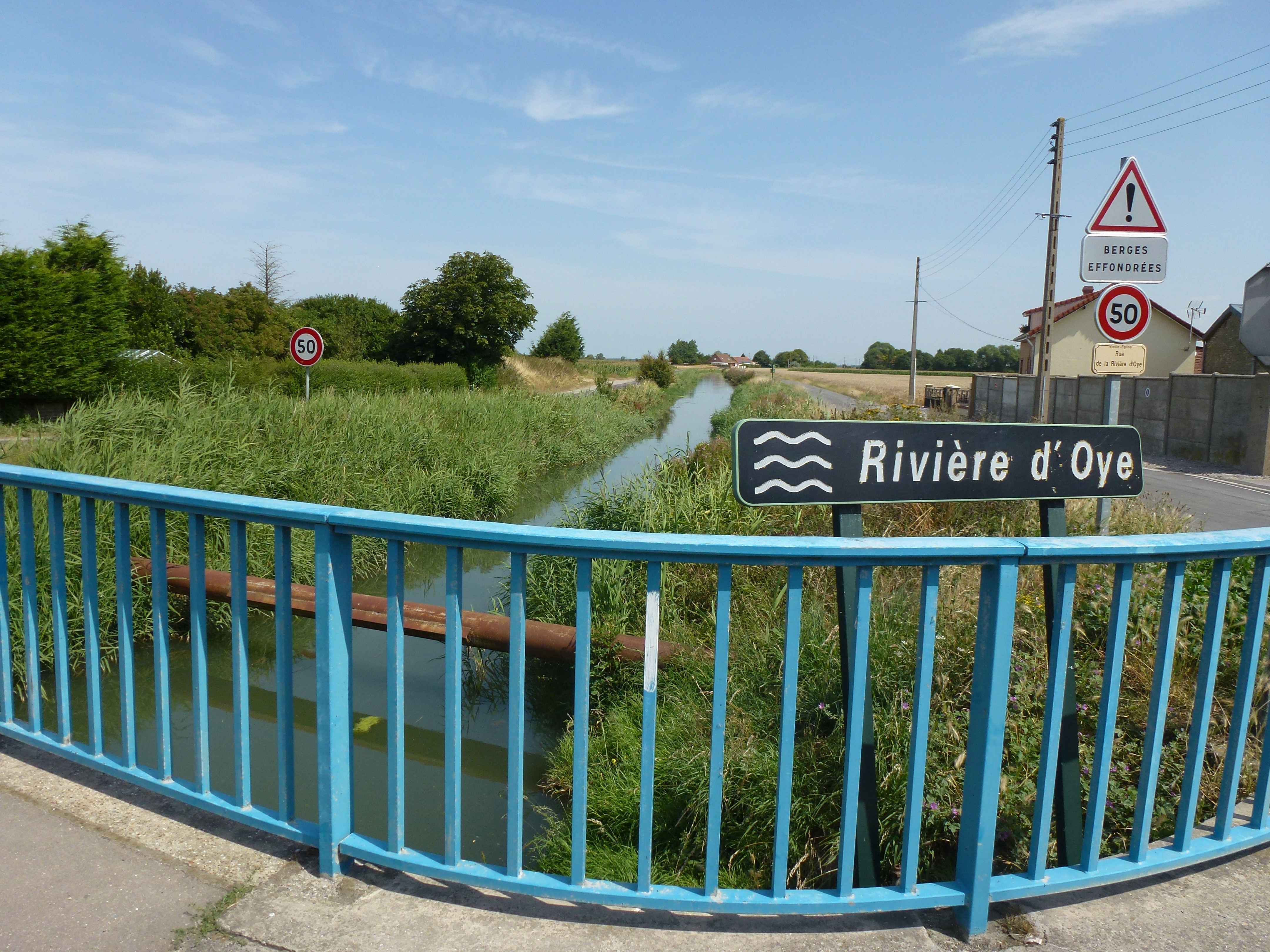 Vieille-Église ~ Oye-Plage (Pas-de-Calais) l'Oye, rivière séparant les communes